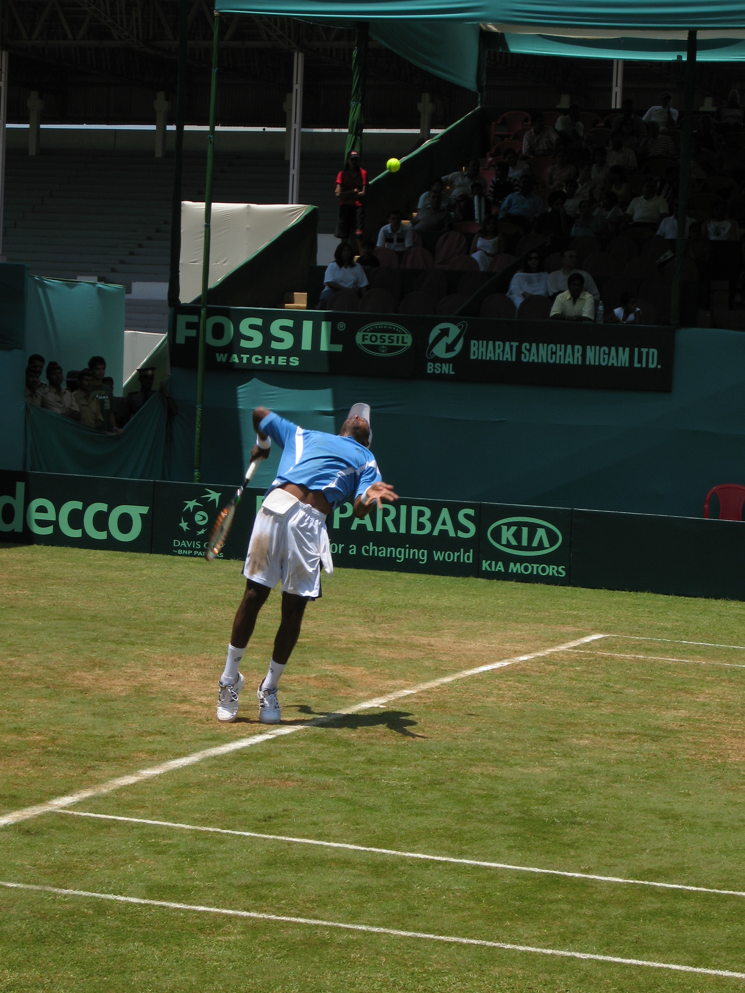 An Indian tennis player prepares to deliver a serve at the India-Pakistan Davis Cup, Brabourne Stadium - Mumbai (2006).